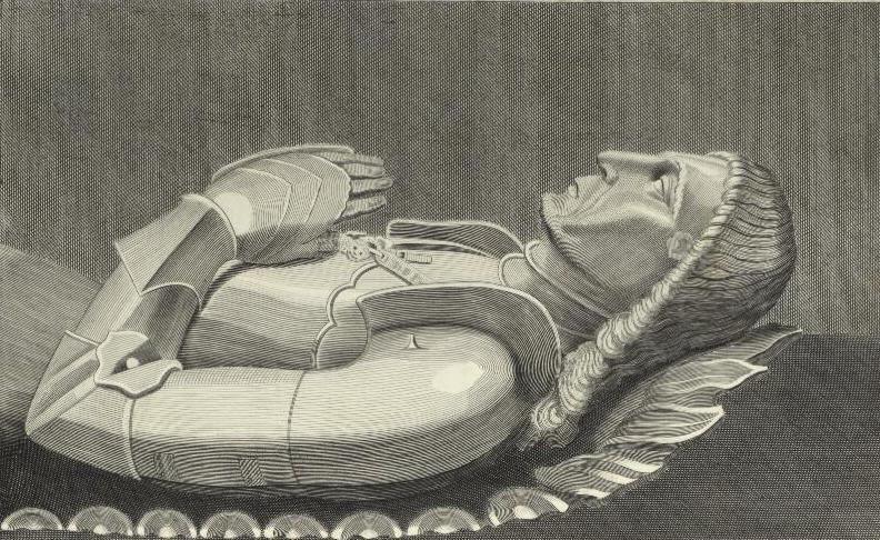 A portrait from the Welsh Portrait Collection at the National Library of Wales. Depicted person: Richard Herbert – Welsh knght